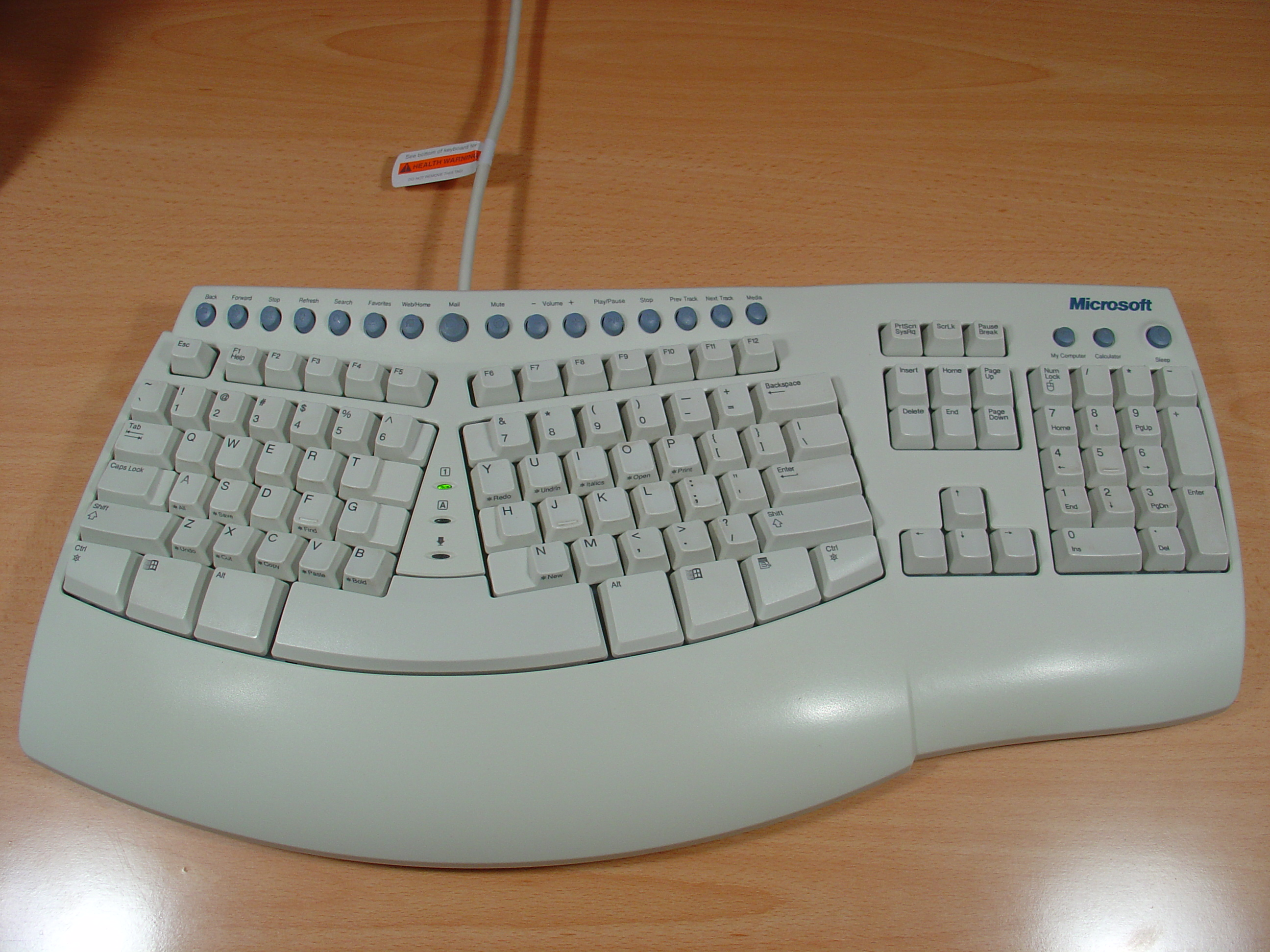 My personal Microsoft Natural Keyboard Pro, cira Q4 1999. .